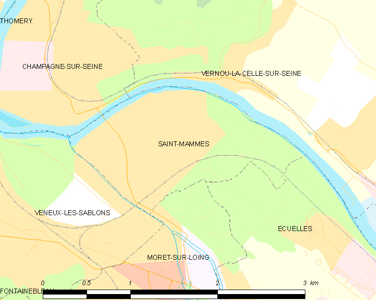 Map of French municipality Saint-Mammès